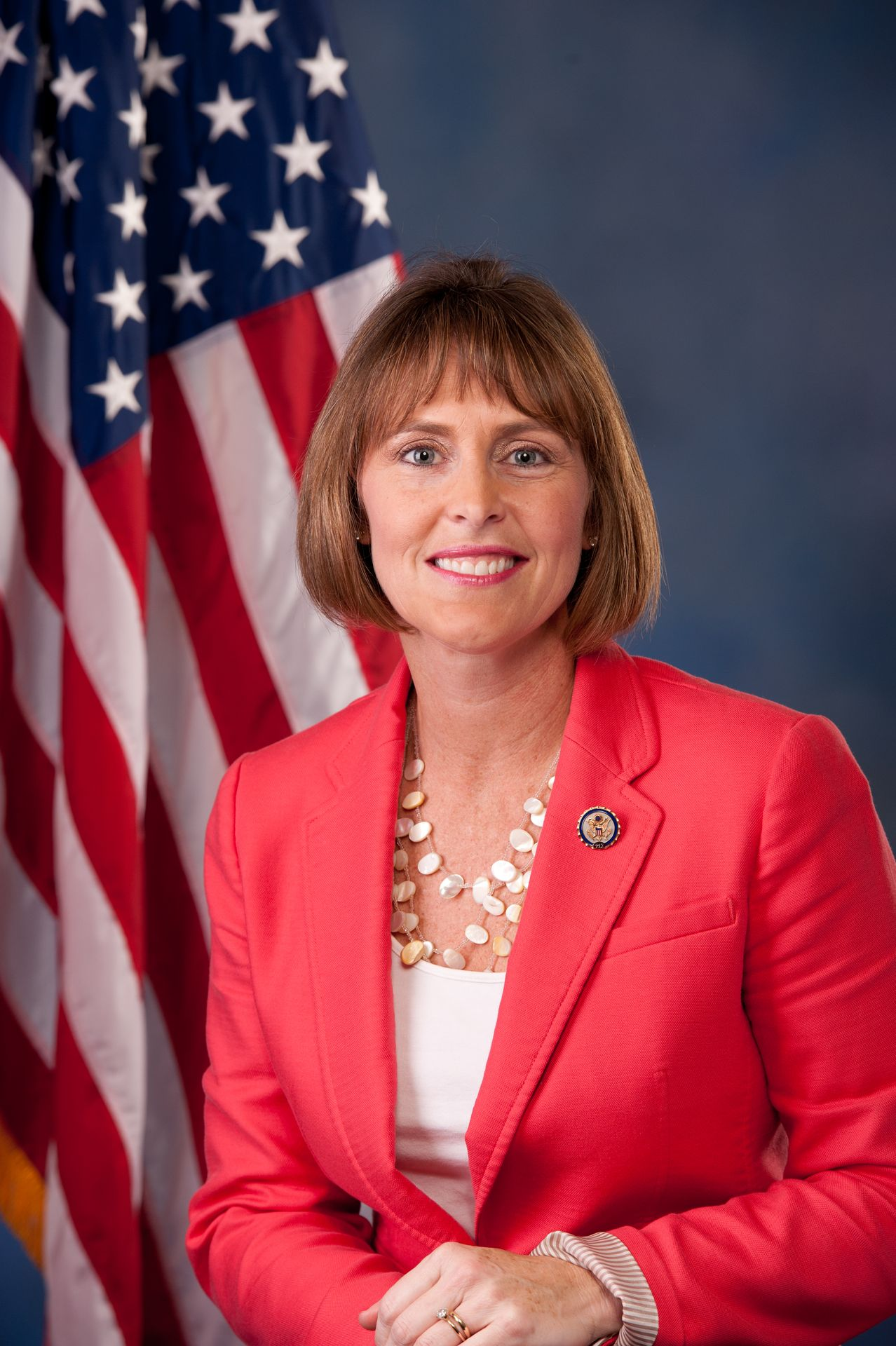 Kathy Castor, member of the United States Congress.